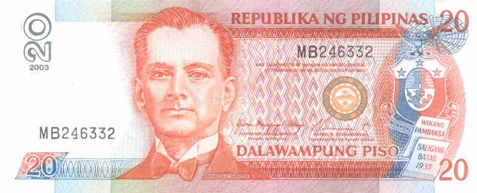 Front side of the New Design series 20-Philippine peso bill.